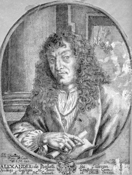 Alessandro Poglietti (16..-1683)